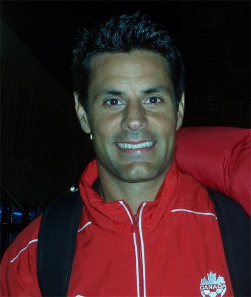 Ante Jazic posing with fans after the Canada vs. Honduras (0-0) World Cup qualifier at BMO Field in 2012.